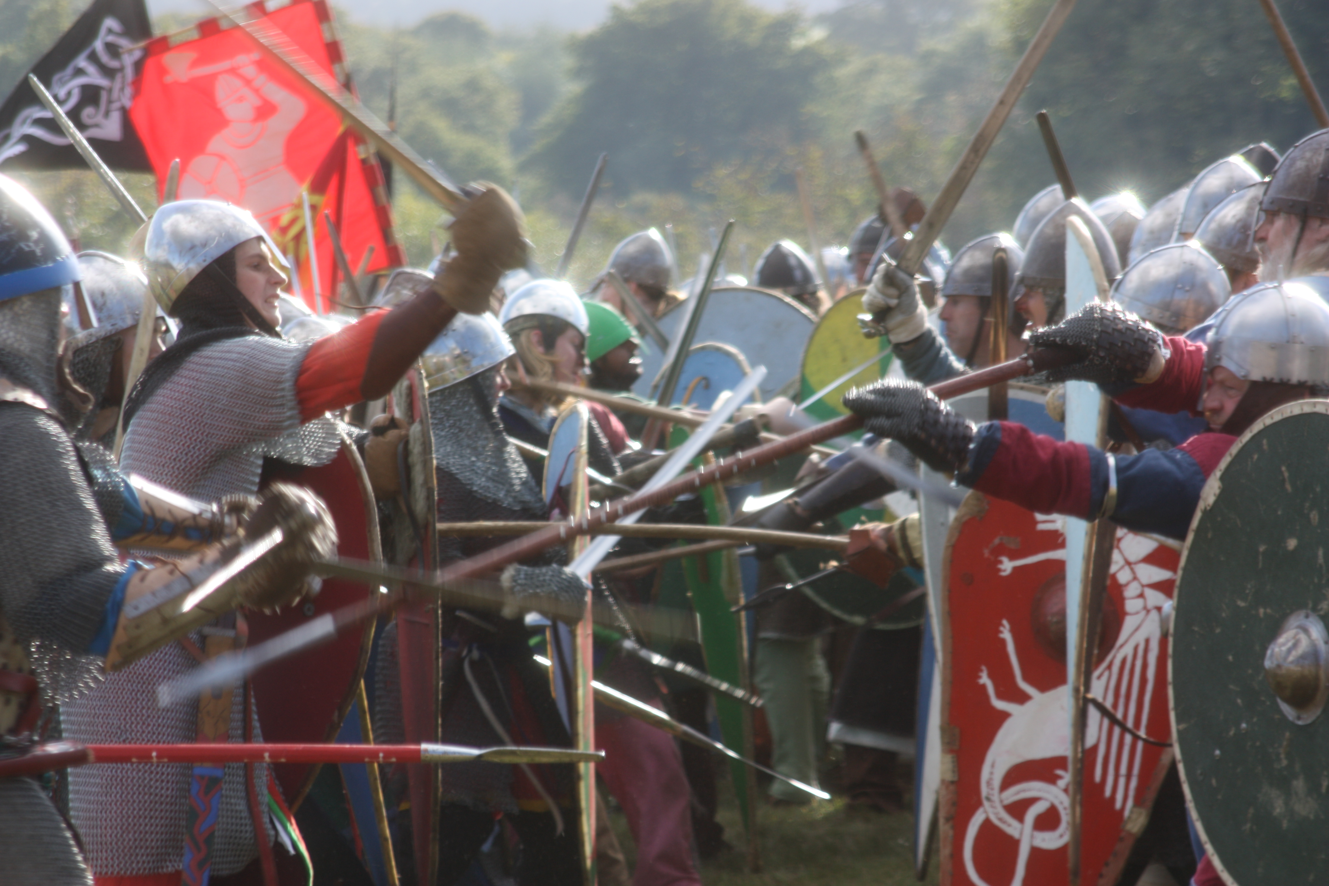 Reconstruction of the Battle of Hastings